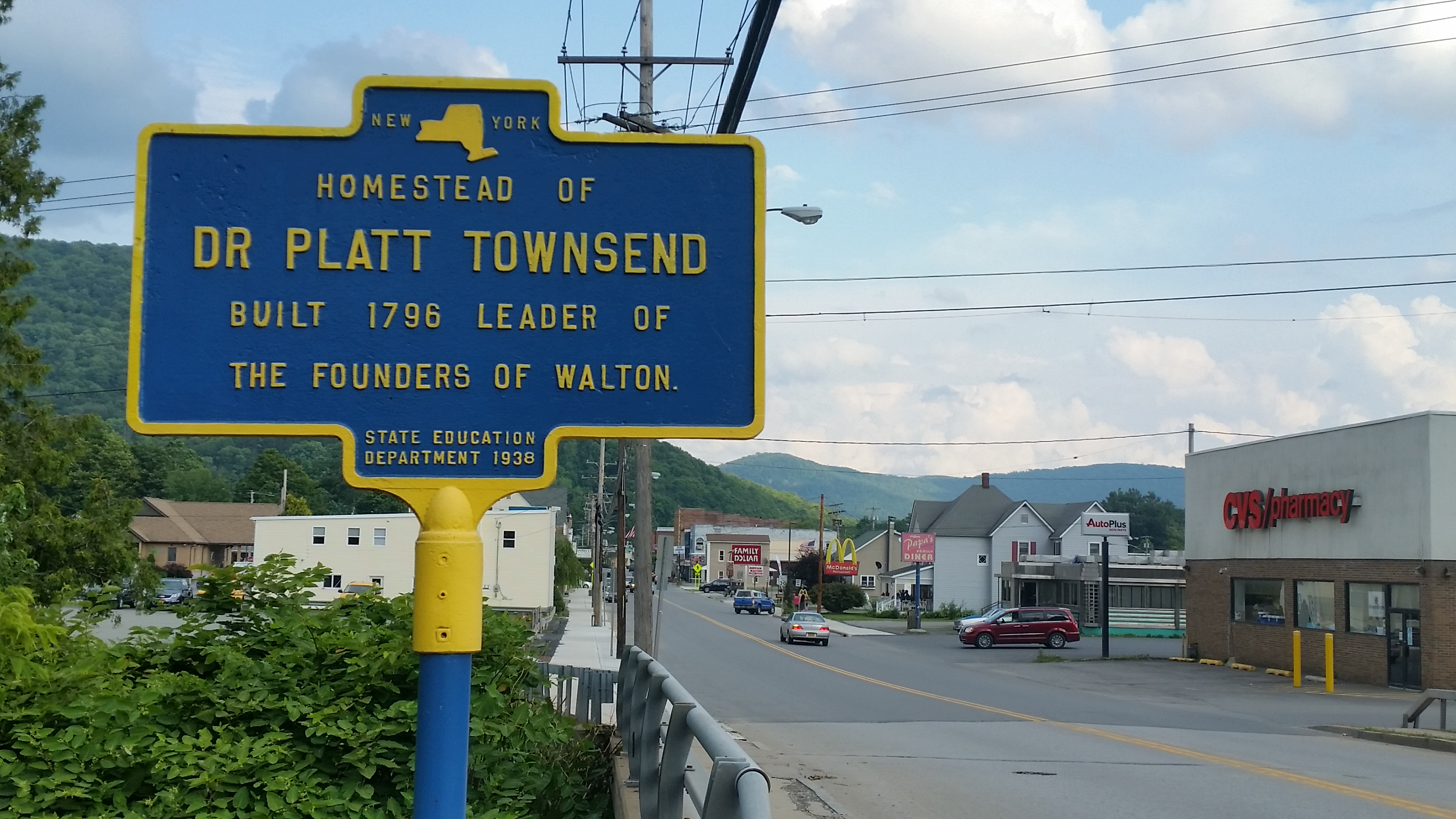 New York State historical marker for Dr. Platt in Walton, NY